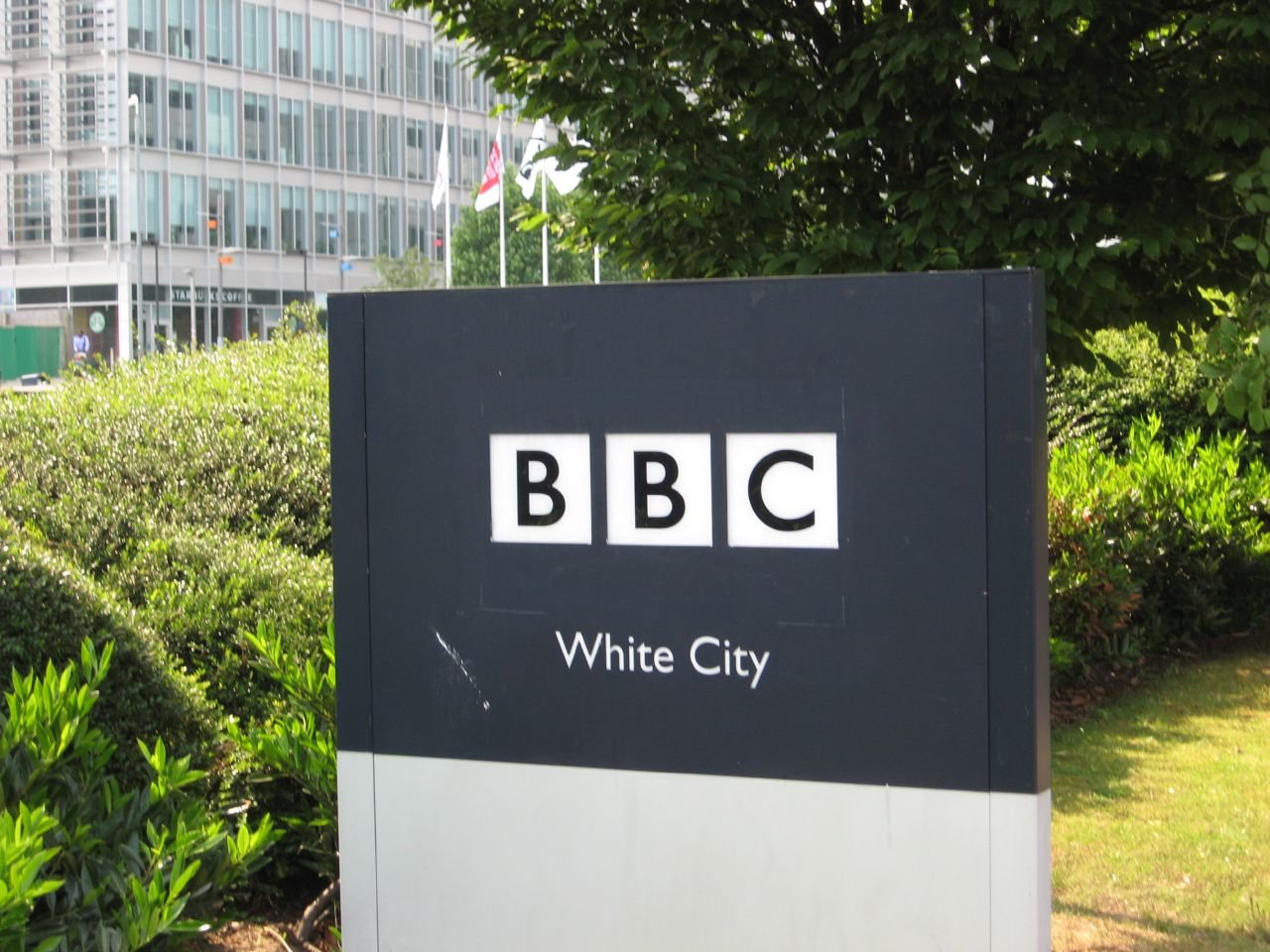 The BBC logo on White City.